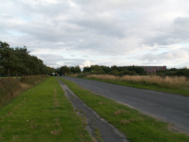 Army Barracks. The buildings in the distance are the Army Foundation College (Harrogate) see enclosed link